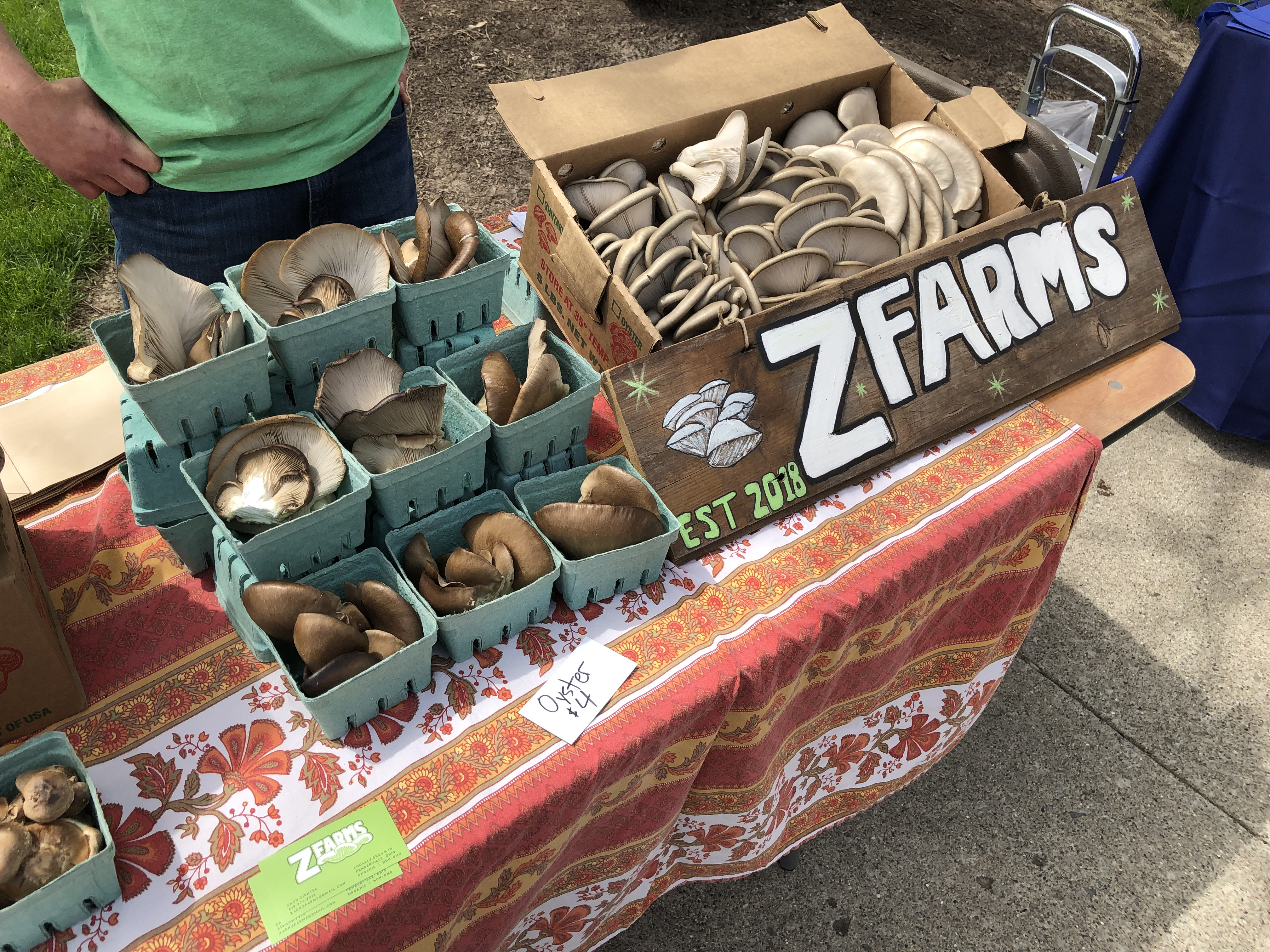 A local mushroom merchant from Pemberville selling his indoor grown mushrooms at the BGSU Eco Fair.